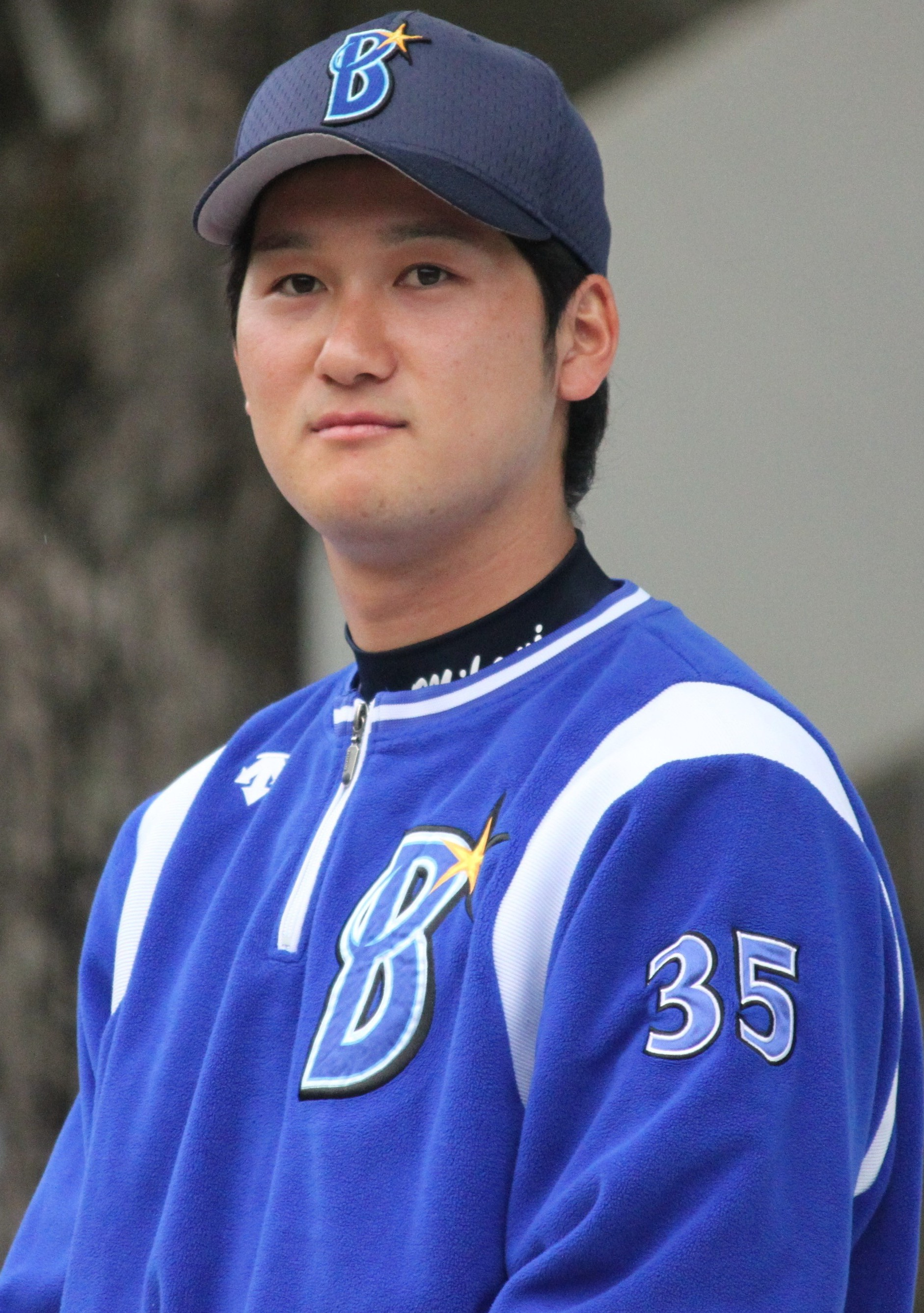 Tomoya Mikami, pitcher of the Yokohama DeNA BayStars, at Yokohama Stadium.